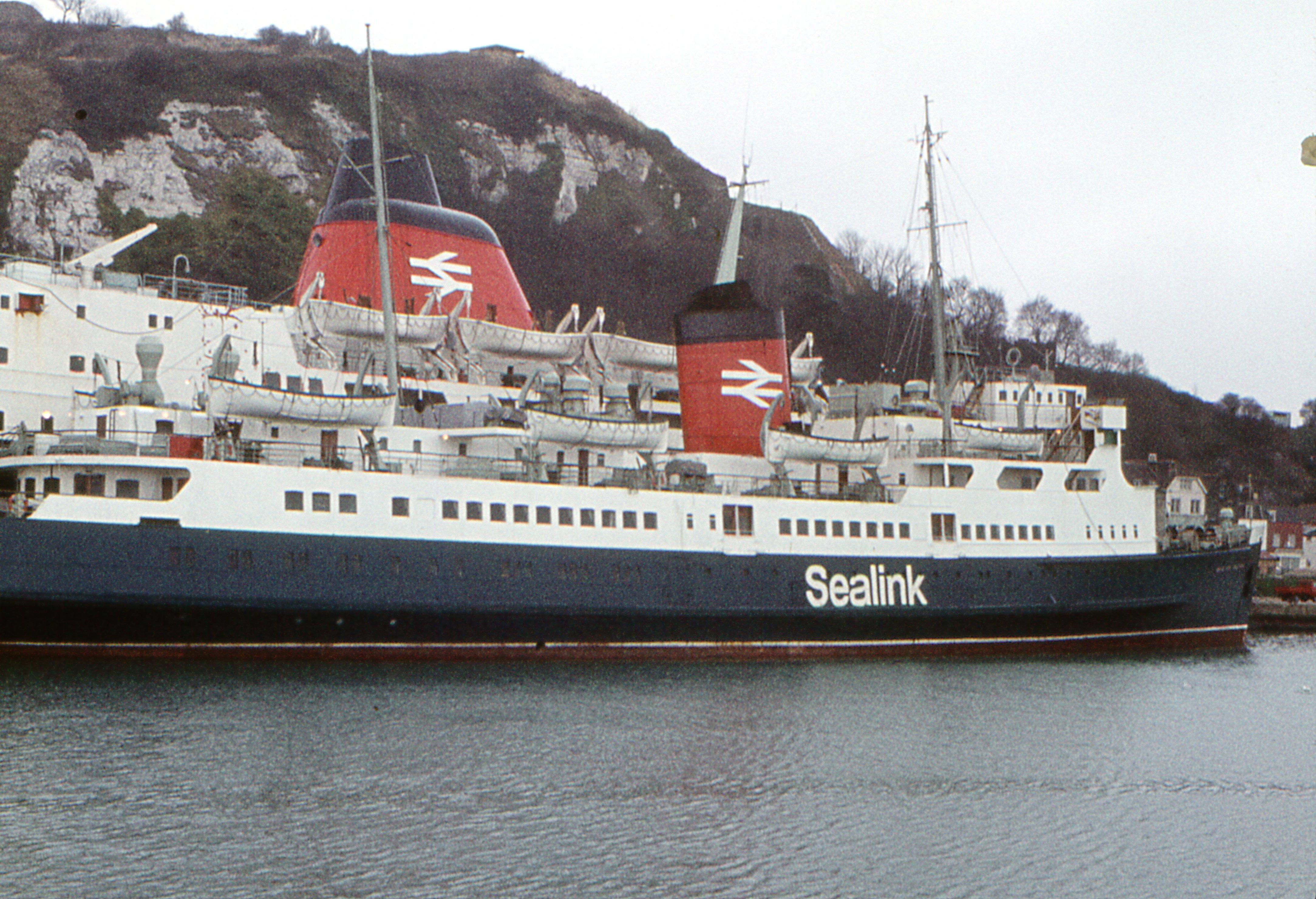 The Sealink Cross Channel Ferries "HORSA" and "MAID OF ORLEANS" berthed at Dover sometime in the early 1970s. Camera: Olympus Pen F Half Frame SLR. Film: Agfacolour.